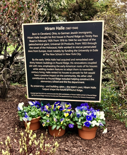 Historical interpretive marker for Hiram Halle. Dedicated by the Pound Ridge Historical Society and the Jewish American Society for Historic Preservation 4-28-2019.